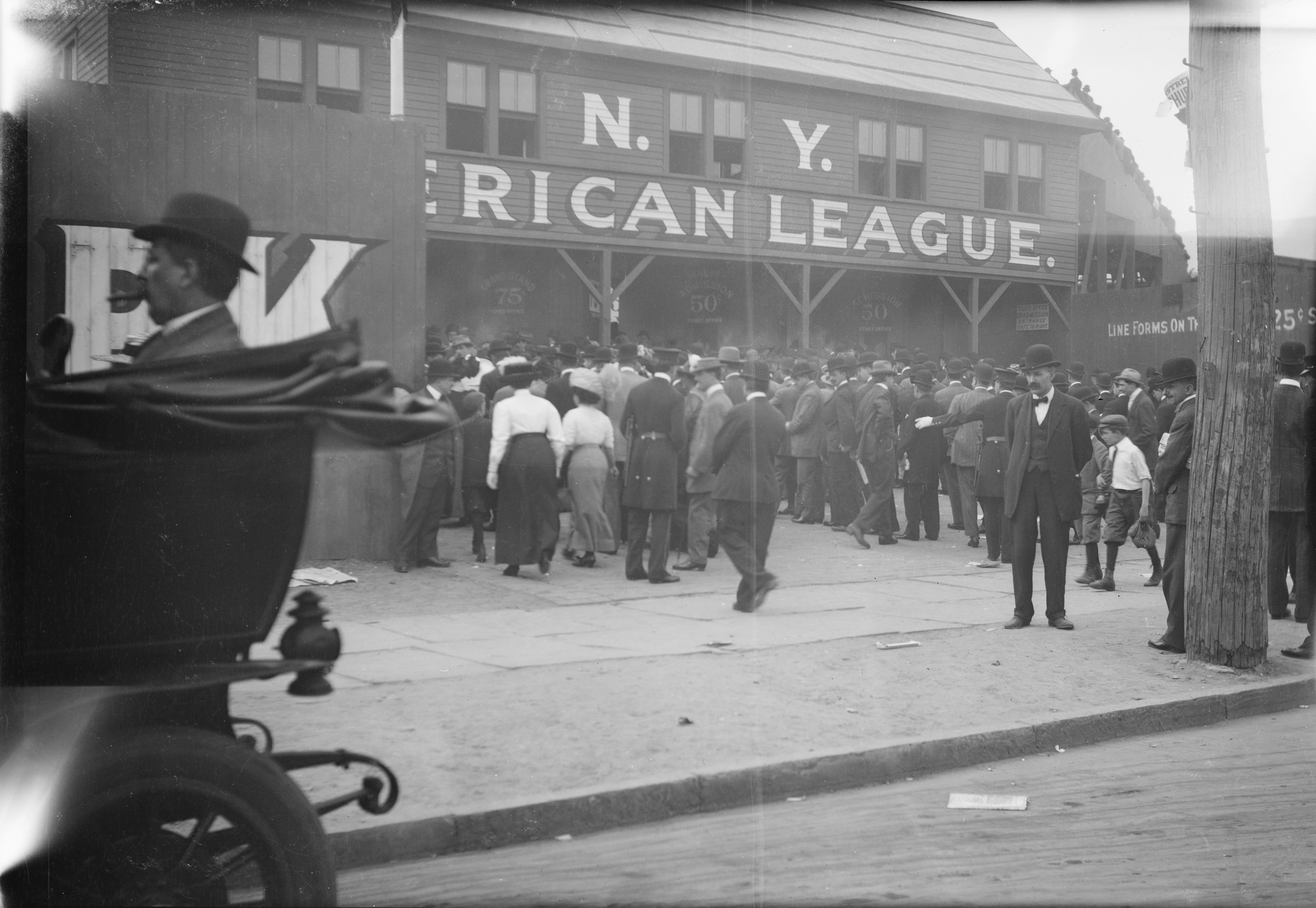 "Entrance, American League Park (Hilltop Park), New York City (baseball)" Border cropped from original image from the Library of Congress.